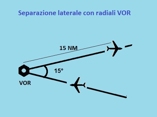 ATC Lateral separation VOR